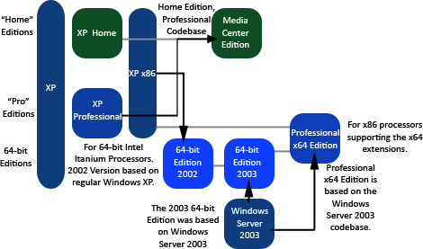 Windows XP Editions